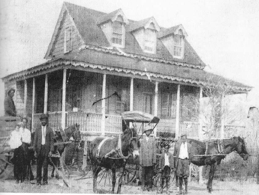 The Hutchinson House is a historic building on Edisto Island South Carolina built by a freed black slave following the civil war. This is how the house looked in 1900. The Hutchinson Family is posing in front of their home.